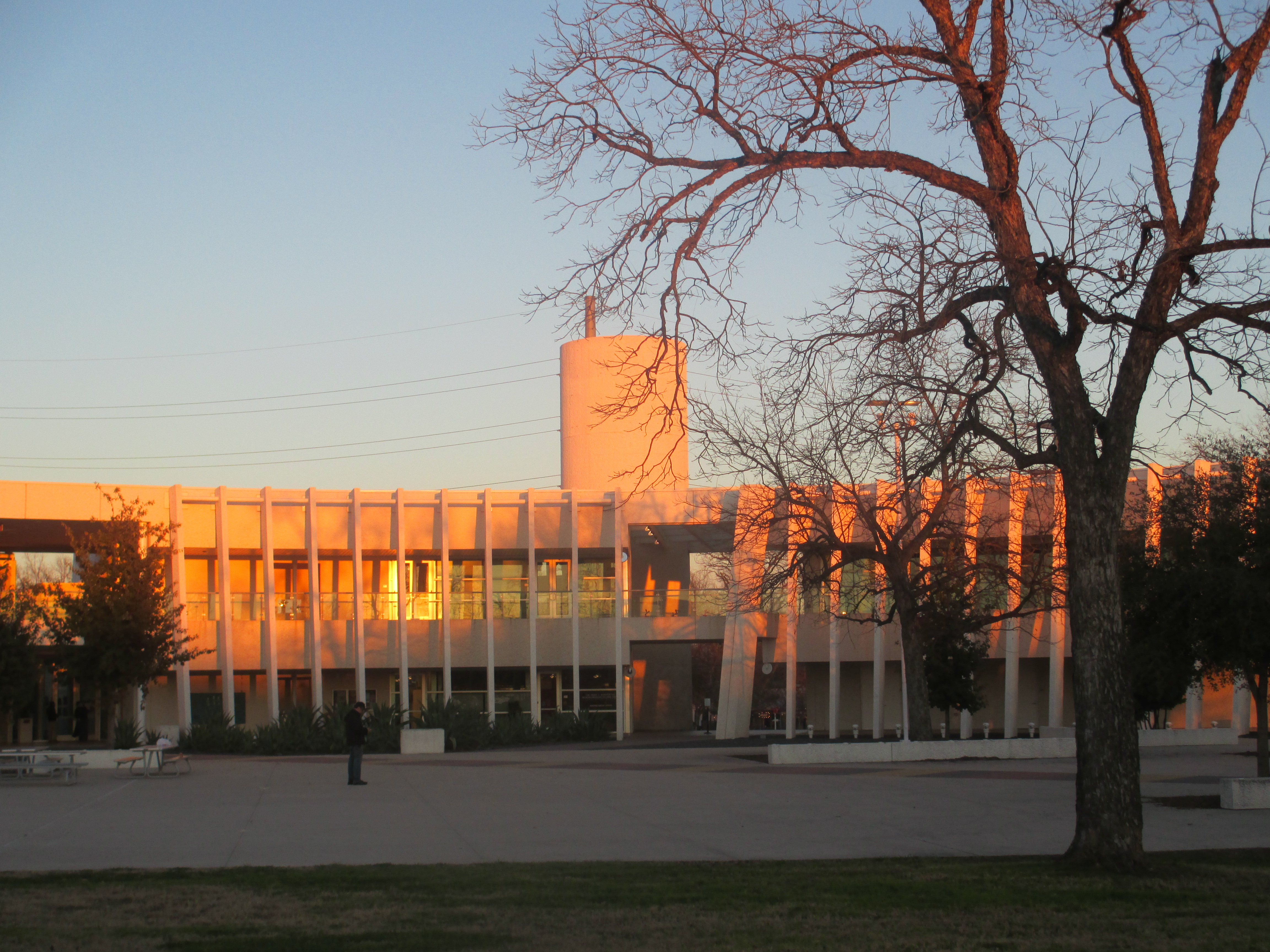 Canon camera 1-16-2013 Emmas S. Barrientos Mexican American Cultural Center at 600 River Street in Austin, TX